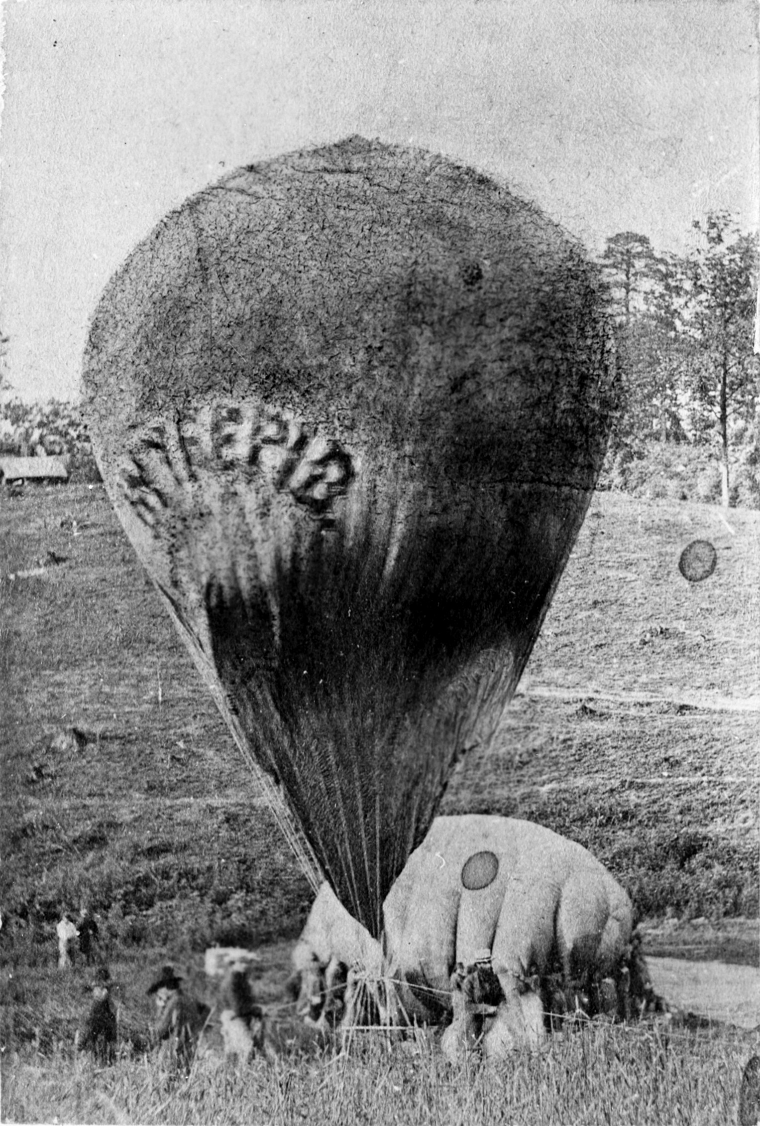 Intrepid being cross-inflated from Constitution in a spur-of-the-moment attempt to get the larger balloon in the air to overlook the imminent Battle of Seven Pines. The balloon Intrepid, one of six to eventually be constructed by Thaddeus Lowe and the Union Army Balloon Corps.